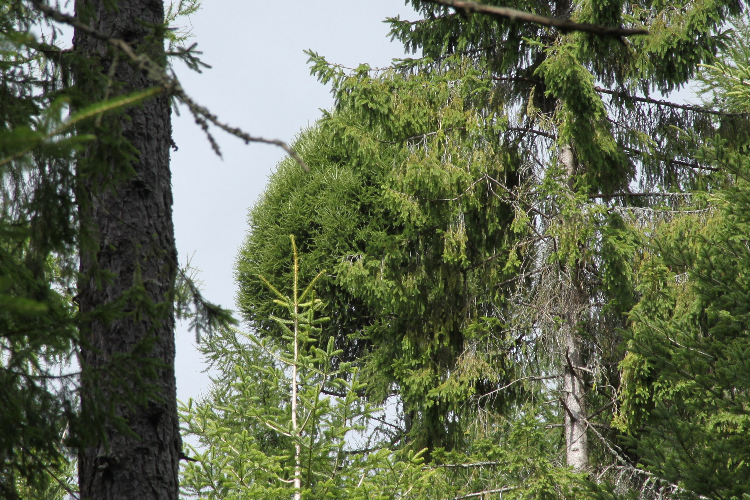 Witch's broom on Picea abies, Sącz Beskids, Poland.